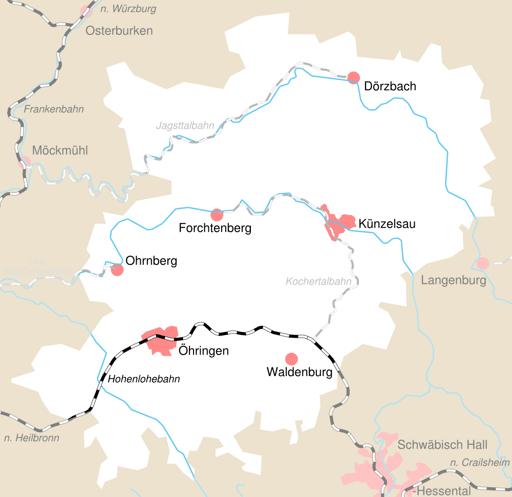 railway map of German Hohenlohe district. please see User:Kjunix/BahnNWB for comments.